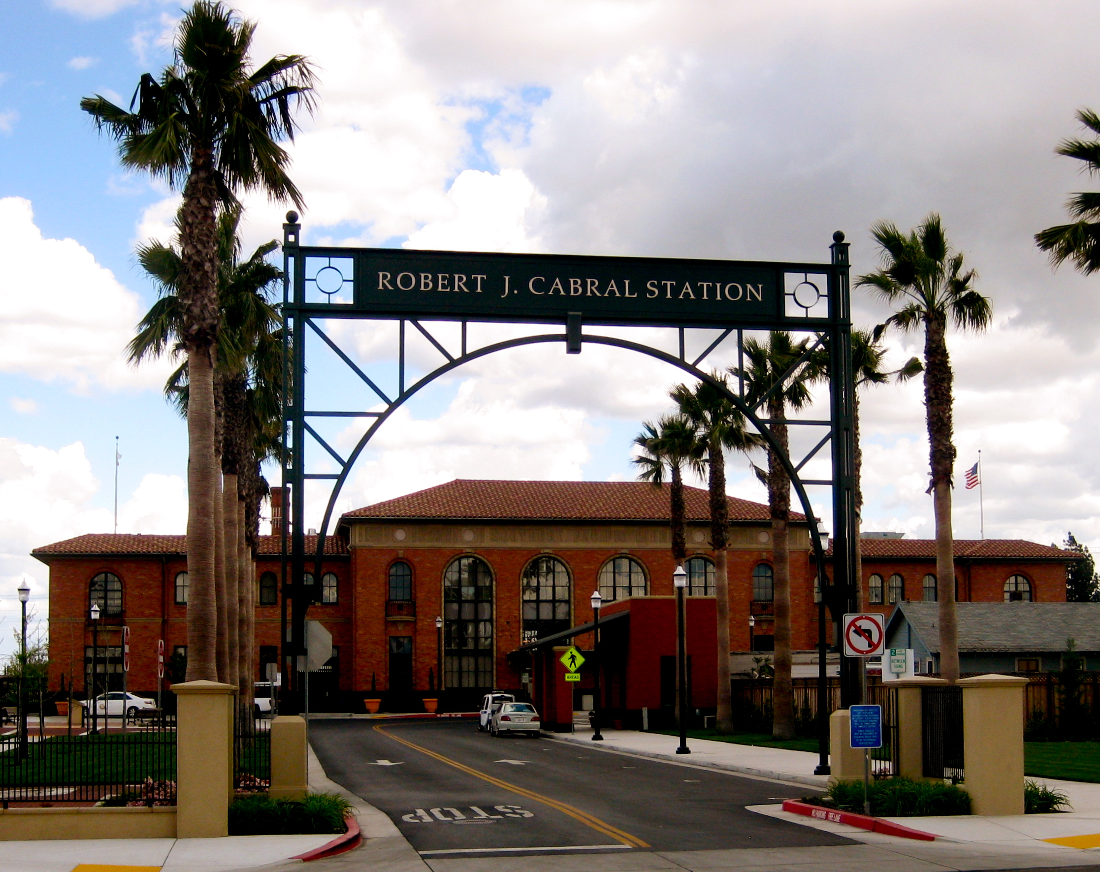 Robert J. Cabral Station, Stockton California